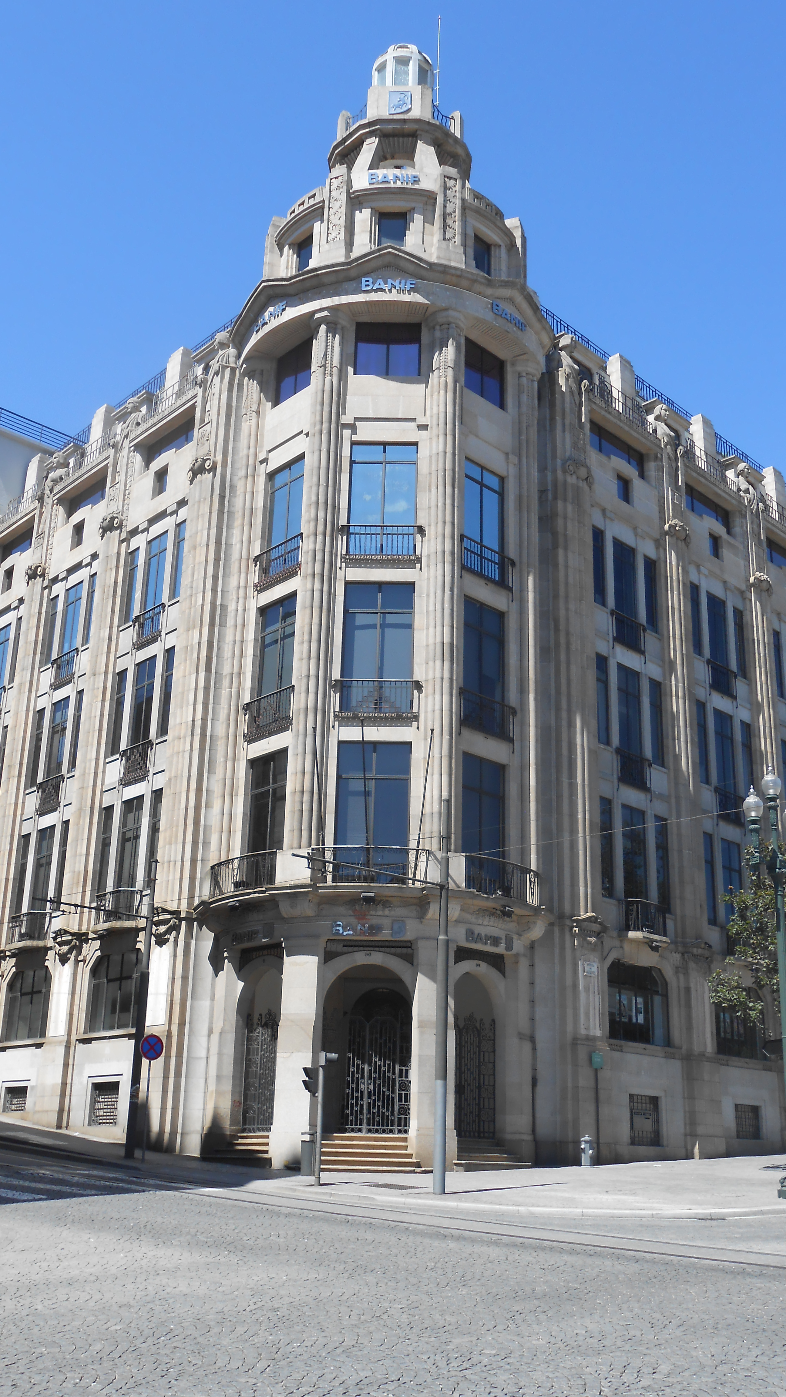 The Banif Bank building on Avenida dos Aliados in Porto. It was built in 1930 as the headquarters of the economic newspaper O Comércio do Porto.